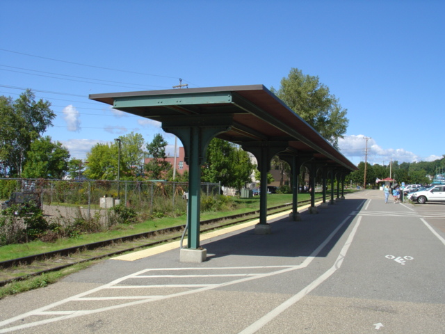 Platform at Burlington Union Station, used for the Champlain Flyer between 2000 and 2003